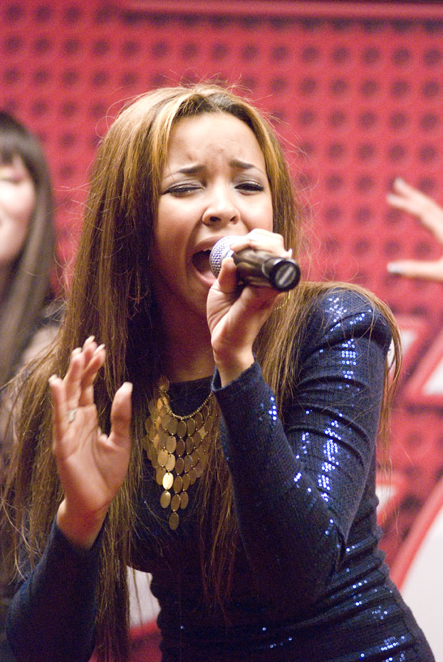 Tinashe Kachingwe of the girl group the Stunners perform at KISS 103.5 Chicago on April 30, 2010. Photo by Adam Bielawski